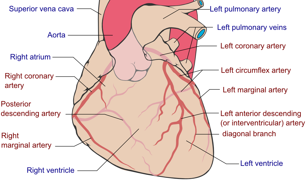 Coronary circulation in anterior view, with coronary arteries labeled in red text and other landmarks in blue text. This vector graphics image was originally created with Adobe Illustrator, and modified with Inkscape. iThe source code of this SVG is valid.